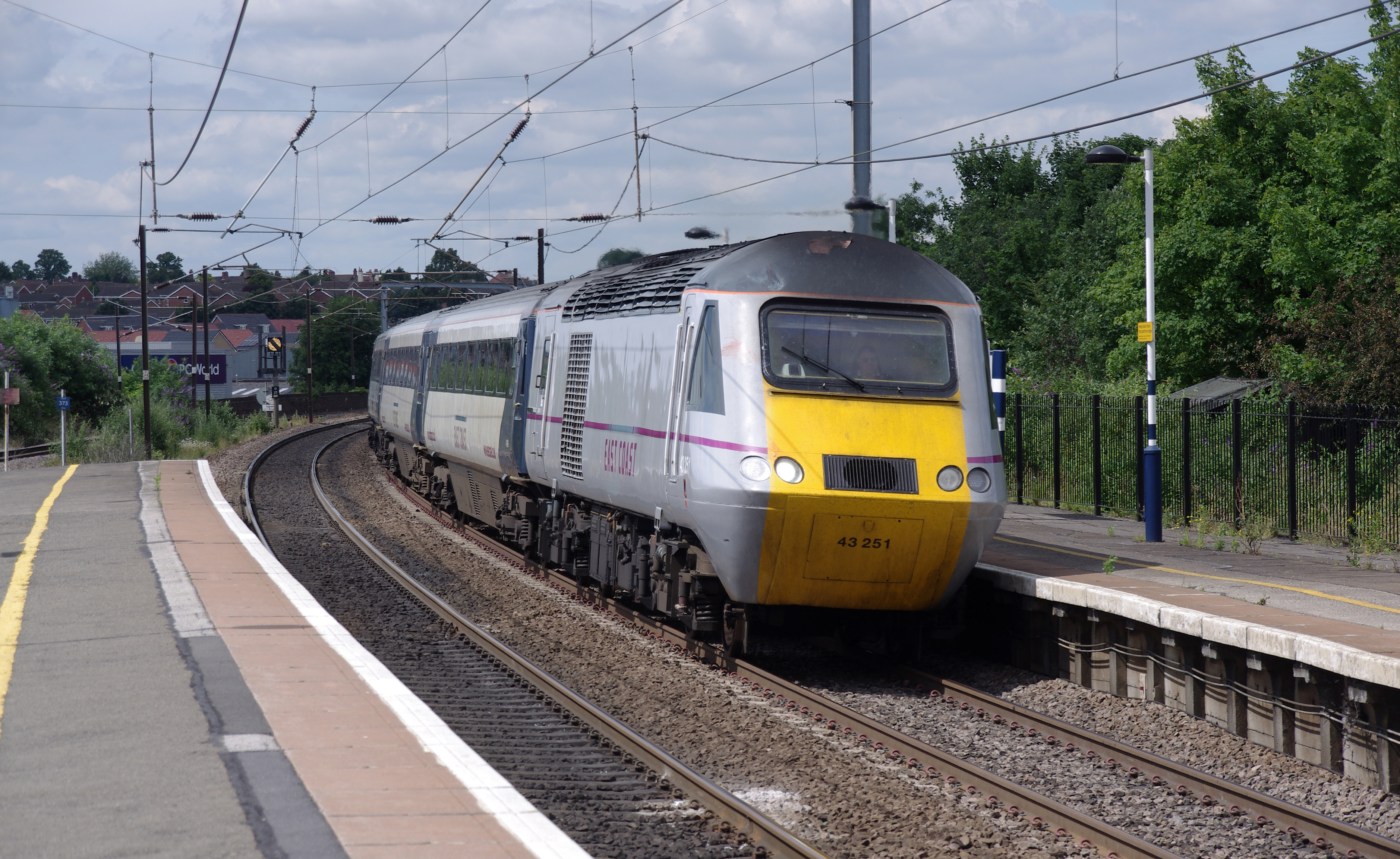 An East Coast HST set, headed by 43251, speeds south through Grantham.